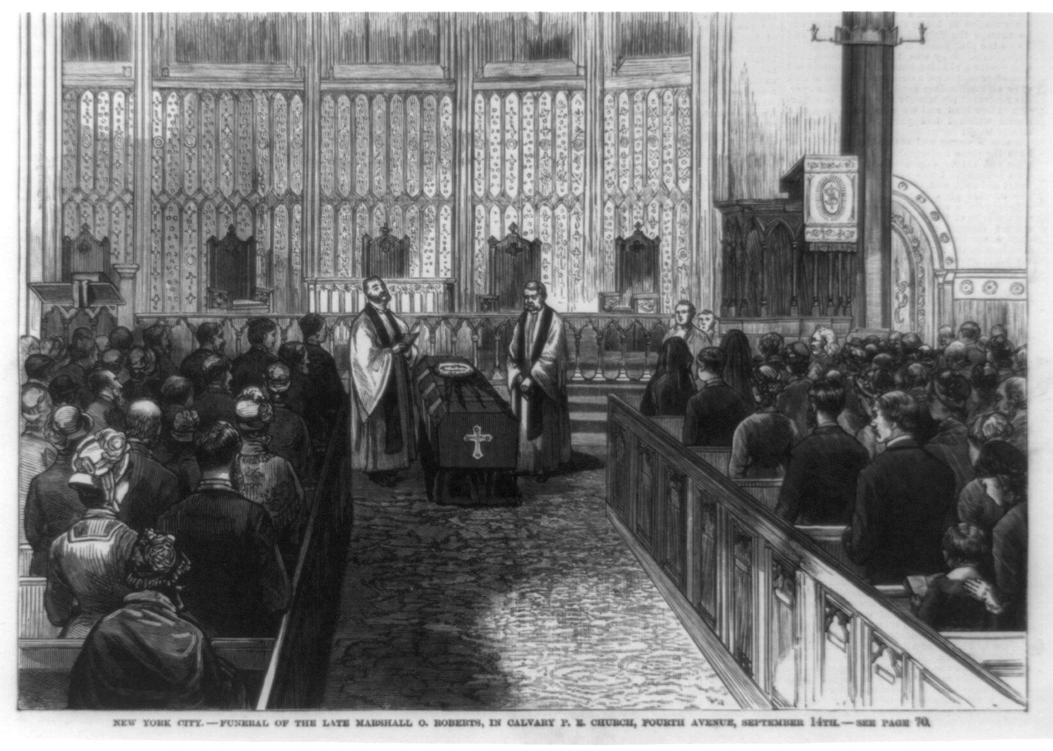 Title: New York City - funeral of the late Marshall O. Roberts, in Calvary P.E. Church, Fourth Avenue, September 14th Abstract/medium: 1 print : wood engraving.